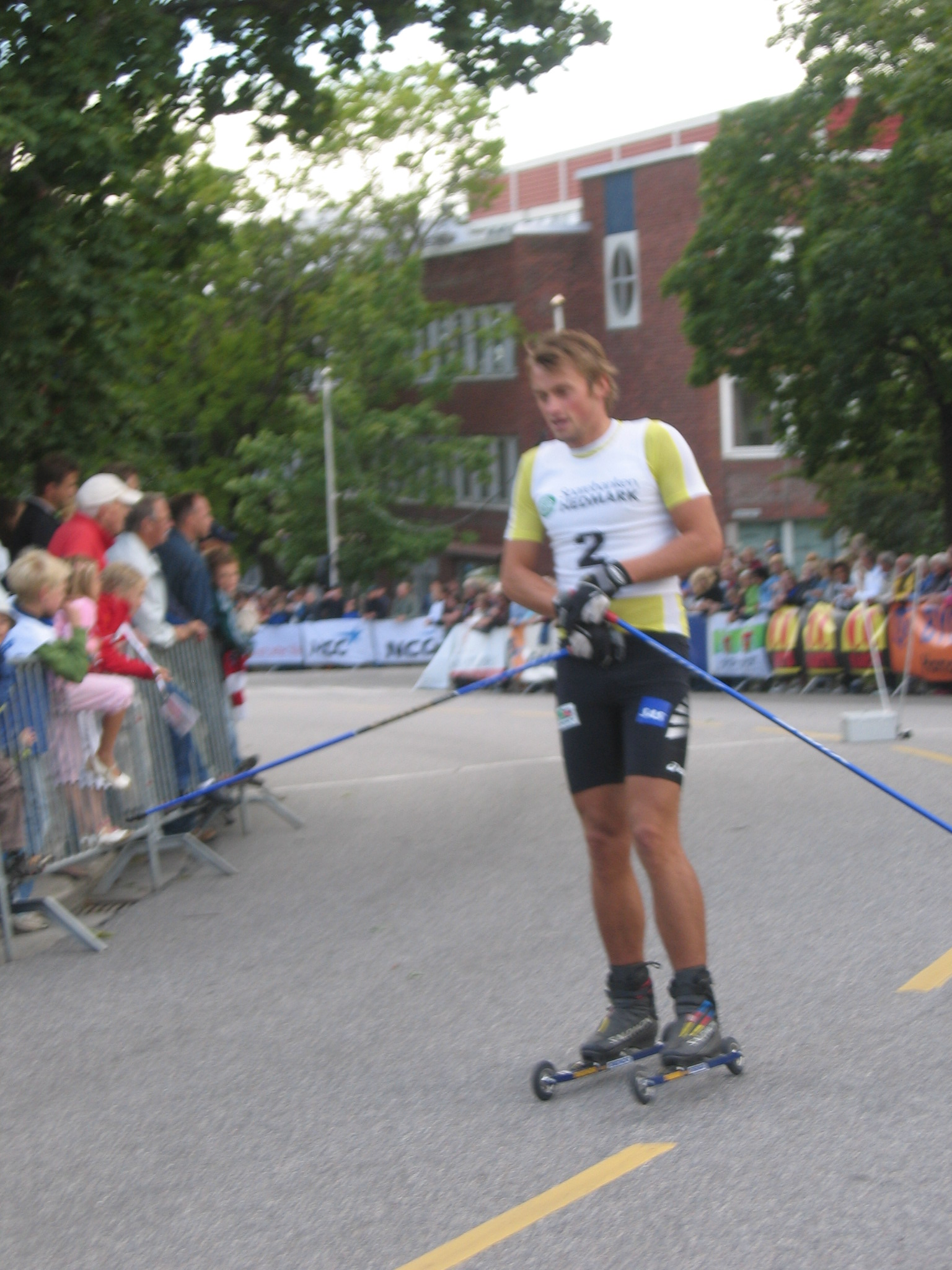 The Norwegian cross-country skier Petter Northug Jr. under Kirkebakken Grand Prix 2007 in Hamar, Norway.